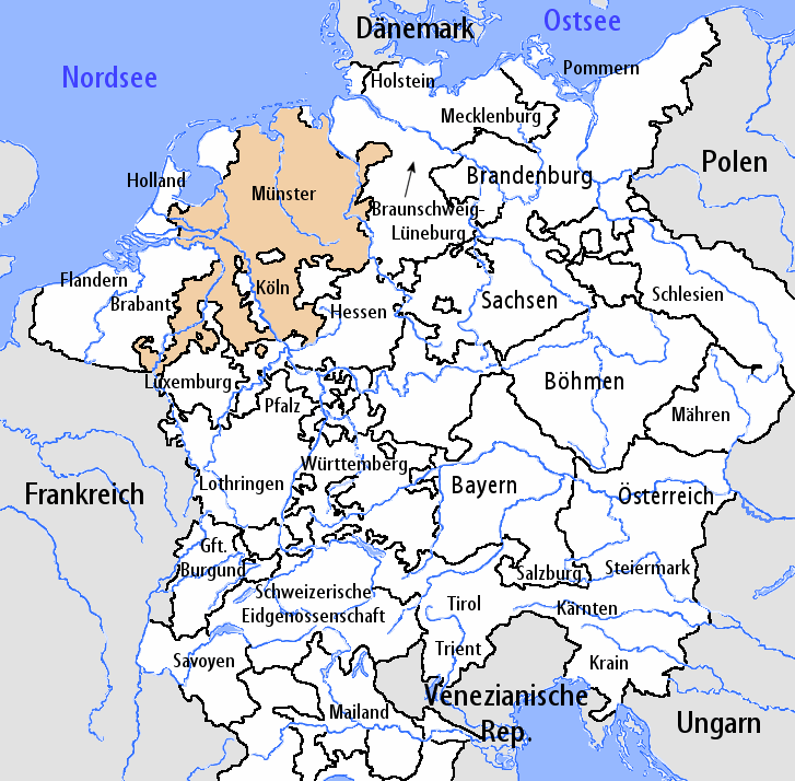 Lower Rhenish-Westphalian Circle